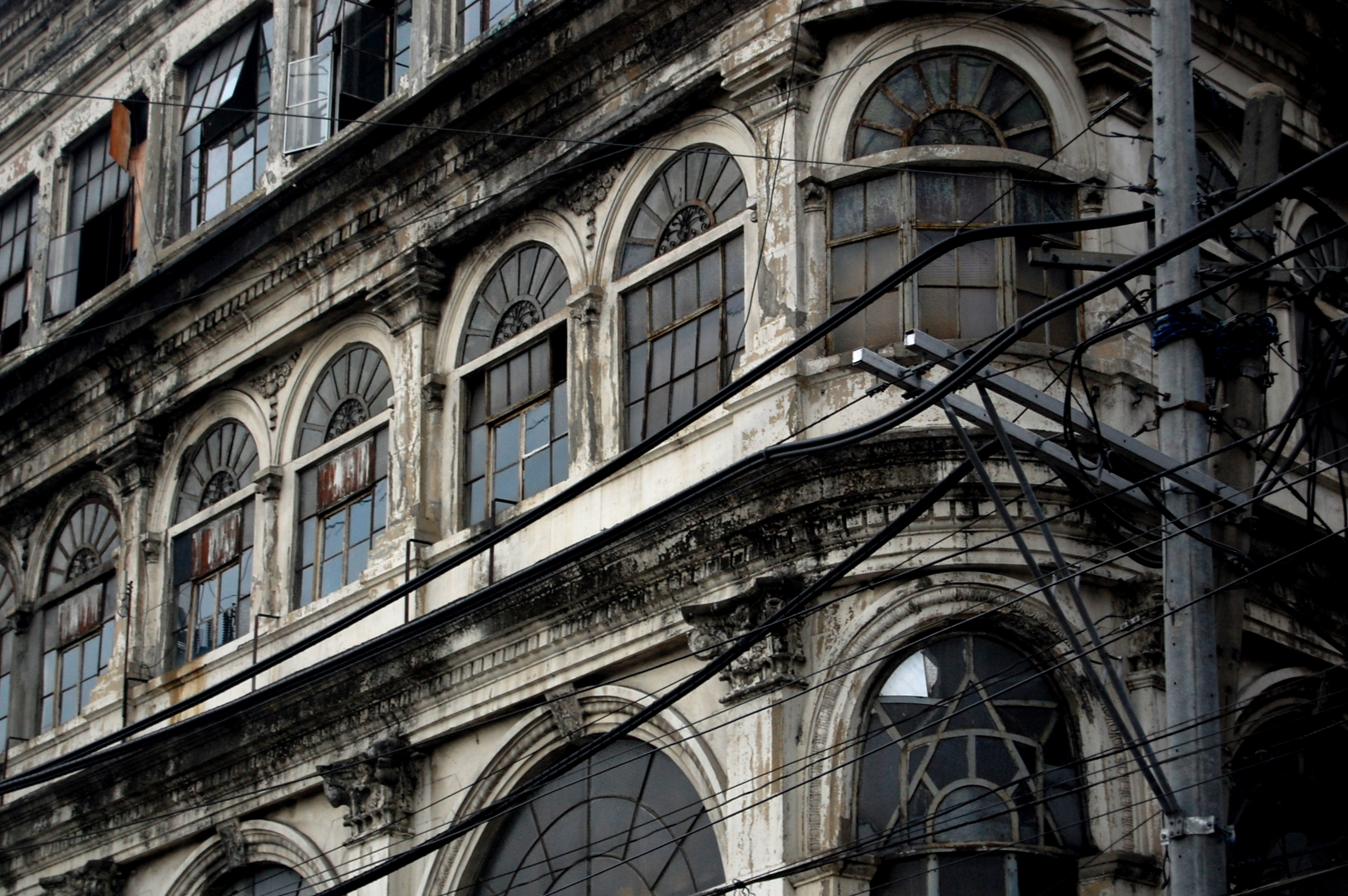 close up of El Hogar Building